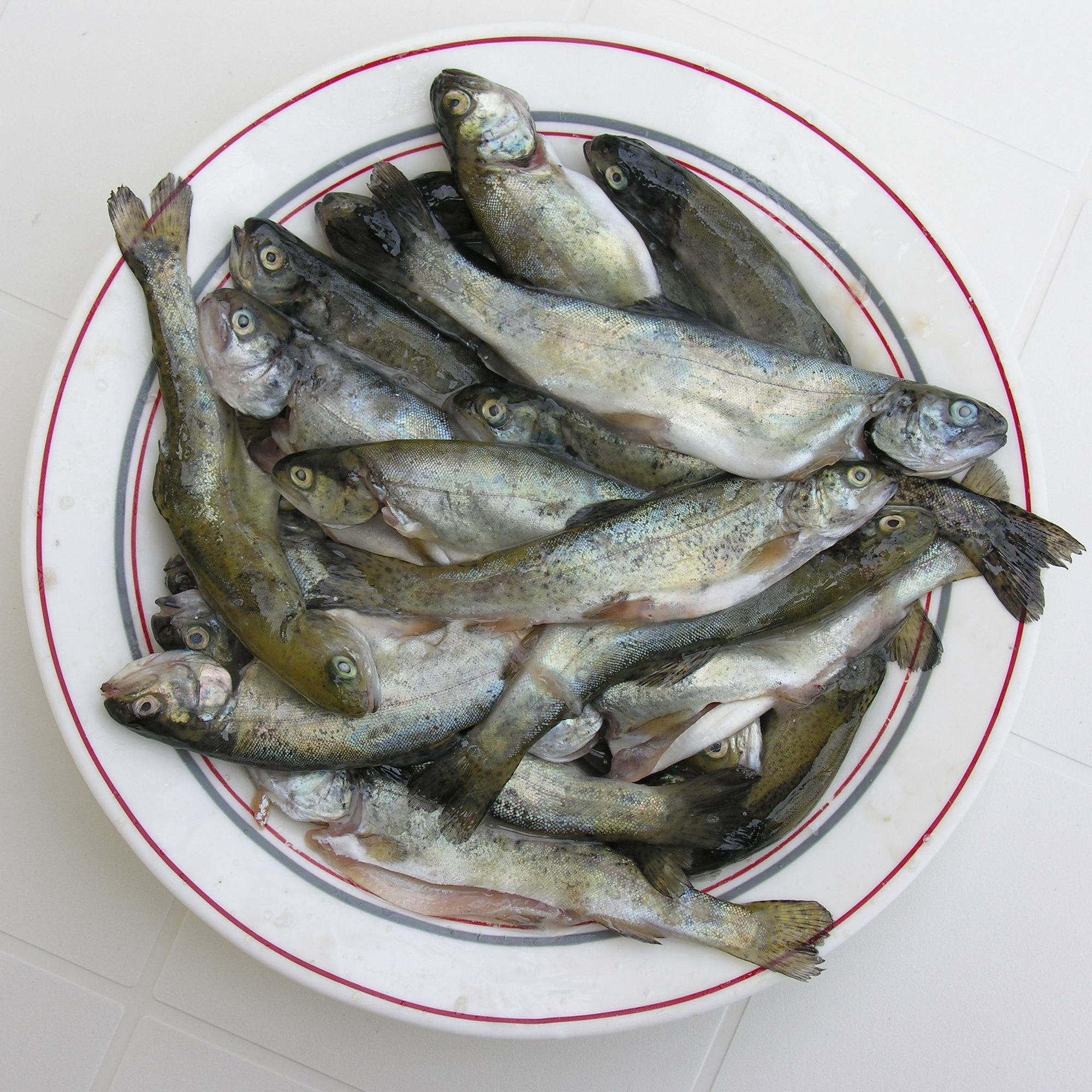 Trouts, Galicia